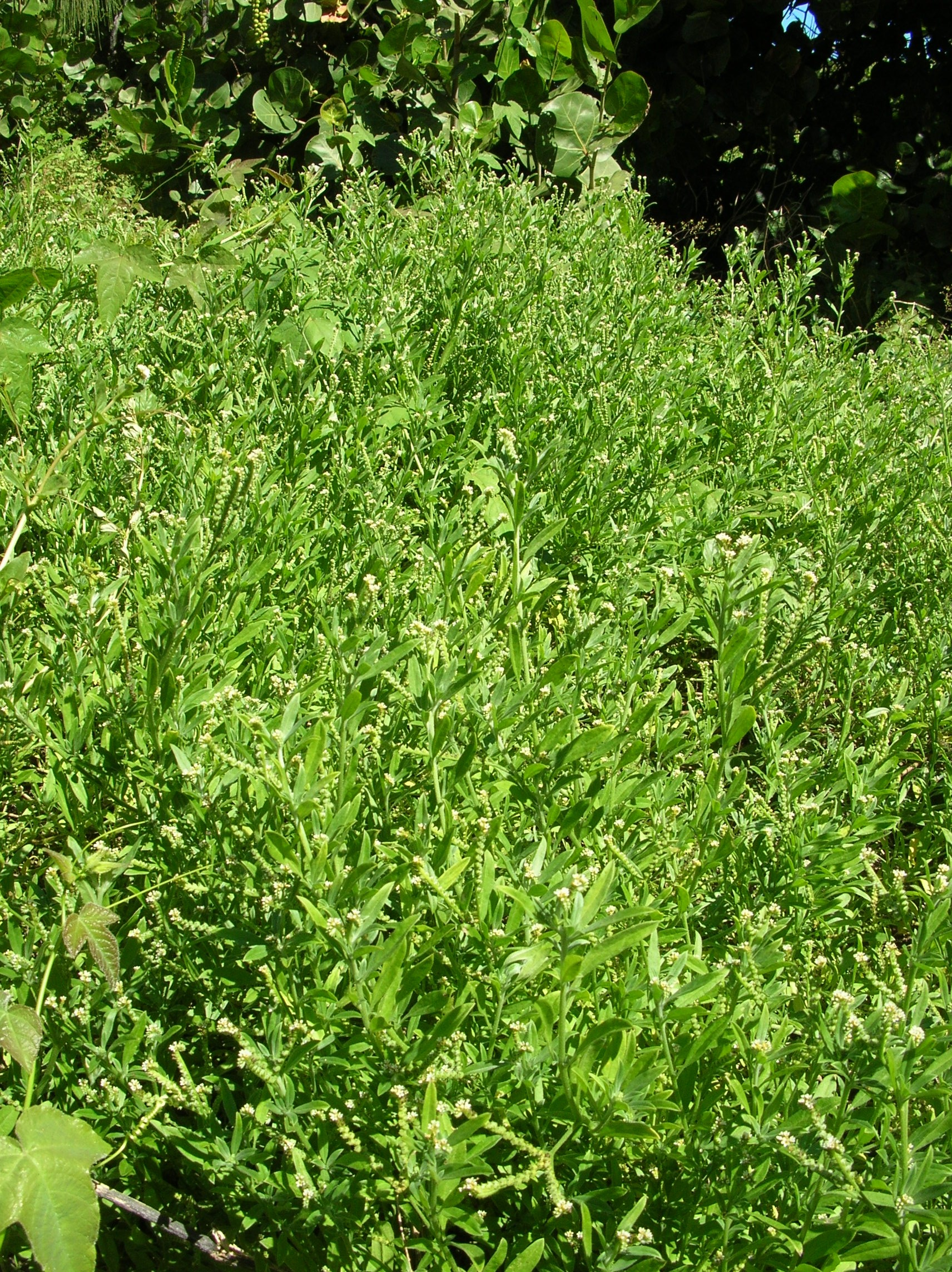 Heliotropium procumbens (habit). Location: Oahu, Mokuauia